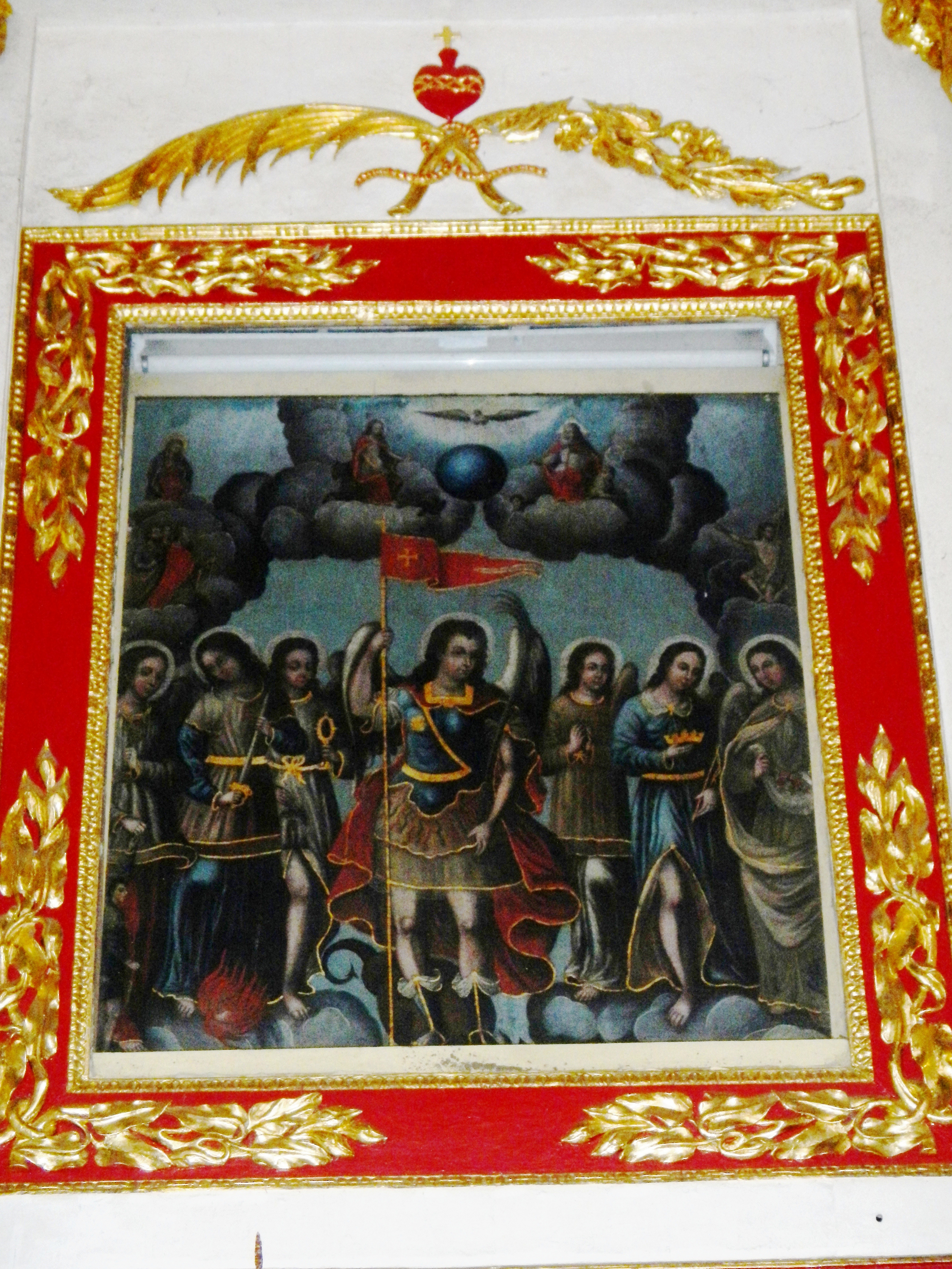 UploadWizard photos --- (general description) of landmarks, heritage, culture, comprehensive, photography) of – Indang, Cavite [1] [2] Coordinates: 14°12'10"N 120°50'25"E [3] Geographical location: Cavite, Region 4, Philippines, Asia Geographical coordinates: 14° 11' 43" North, 120° 52' 37" East [4] - Barangay Poblacion Tres Mall, Covered Court, Plaza, among others in Centro, downtown, junction, crossing, Town Proper in the heart is the heritage Town hall and Plaza --- Saint Gregory the Great Parish Church of Indang [5] (belongs to the Roman Catholic Diocese of Imus [6] (Jubilee Church)– Indang (Town Proper) Vicariate of The Seven Archangels (Tagaytay City/Mendez/Indang/Alfonso/General Aguinaldo) Vicar Forane: Rev Fr. Luisito C. Gatdula Episcopal District 2 Episcopal Vicar: Rev. Fr. Agustin Baas Vicarial Representative: Rev. Fr. Hermenegildo M. Asilo.[7] [8]. [9] Pope Gregory I).